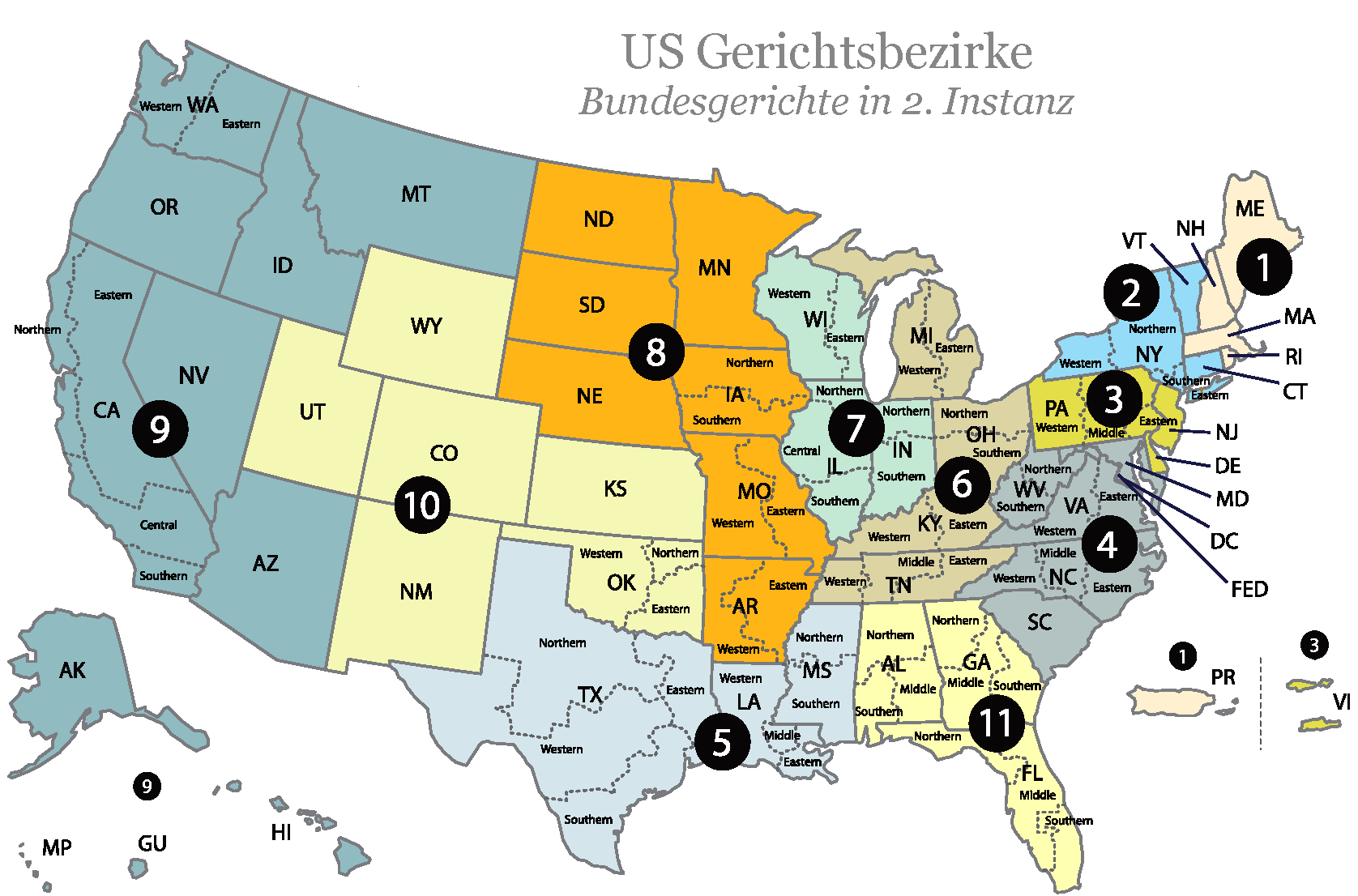 German translation of Image:Circuitmap.png, original was public domain (work of the US government) Map of U.S. Circuit Courts (but as of what date?)